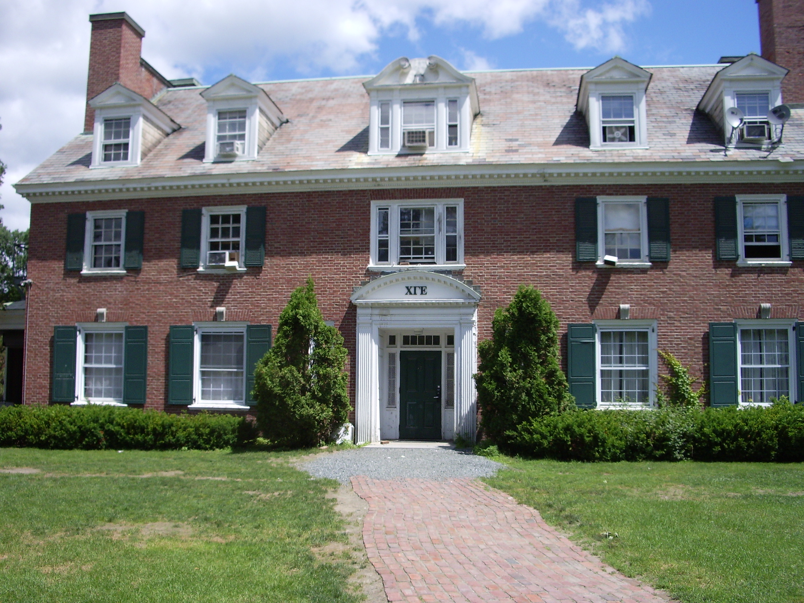 Photograph of Chi Gamma Epsilon at the campus of Dartmouth College in Hanover, New Hampshire.